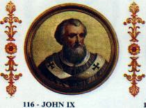 Pope John IX